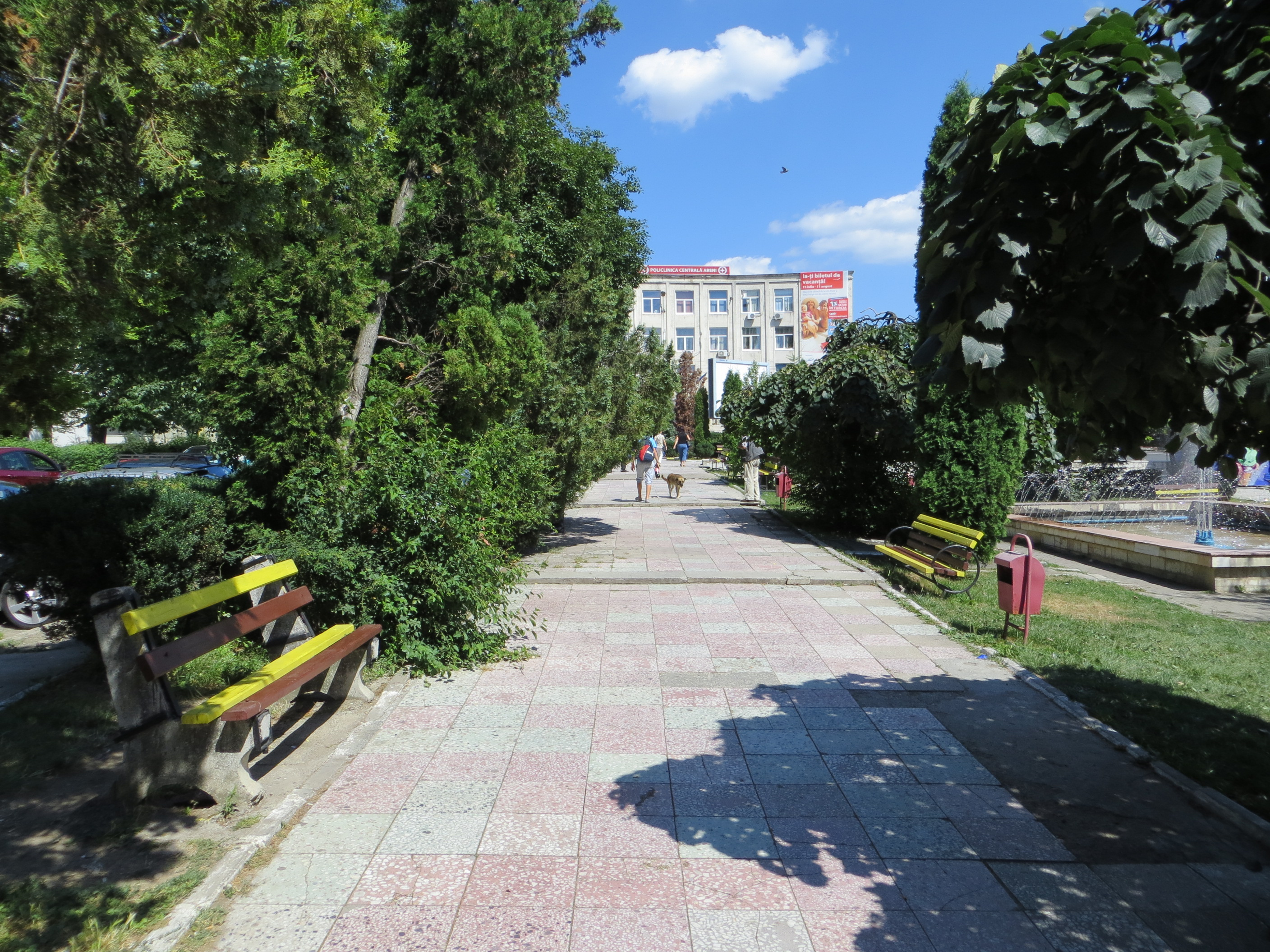 Vladimir Florea Park in Suceava.